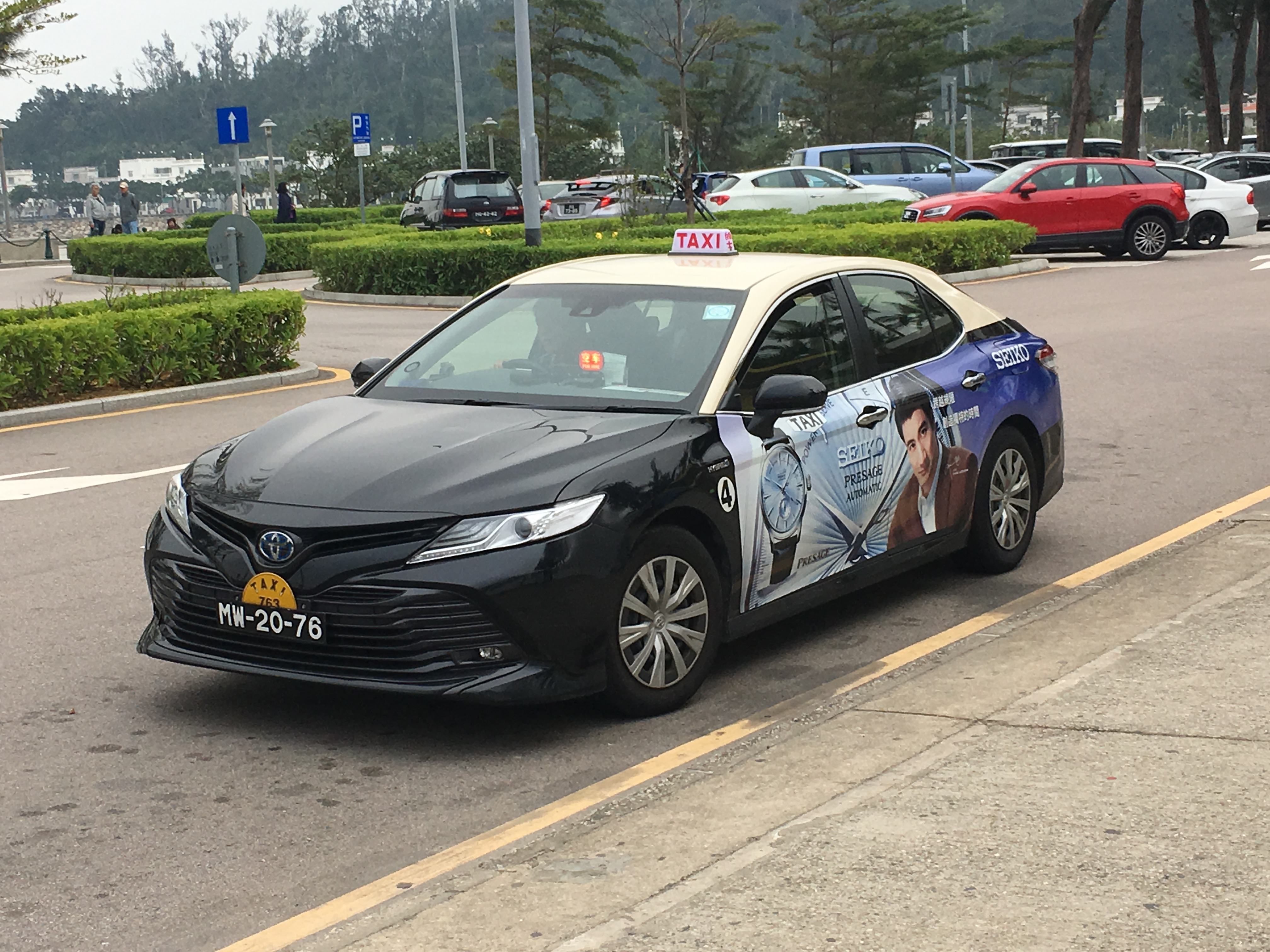 中文（香港）: This photo is taken in Praia de Hac Sá.